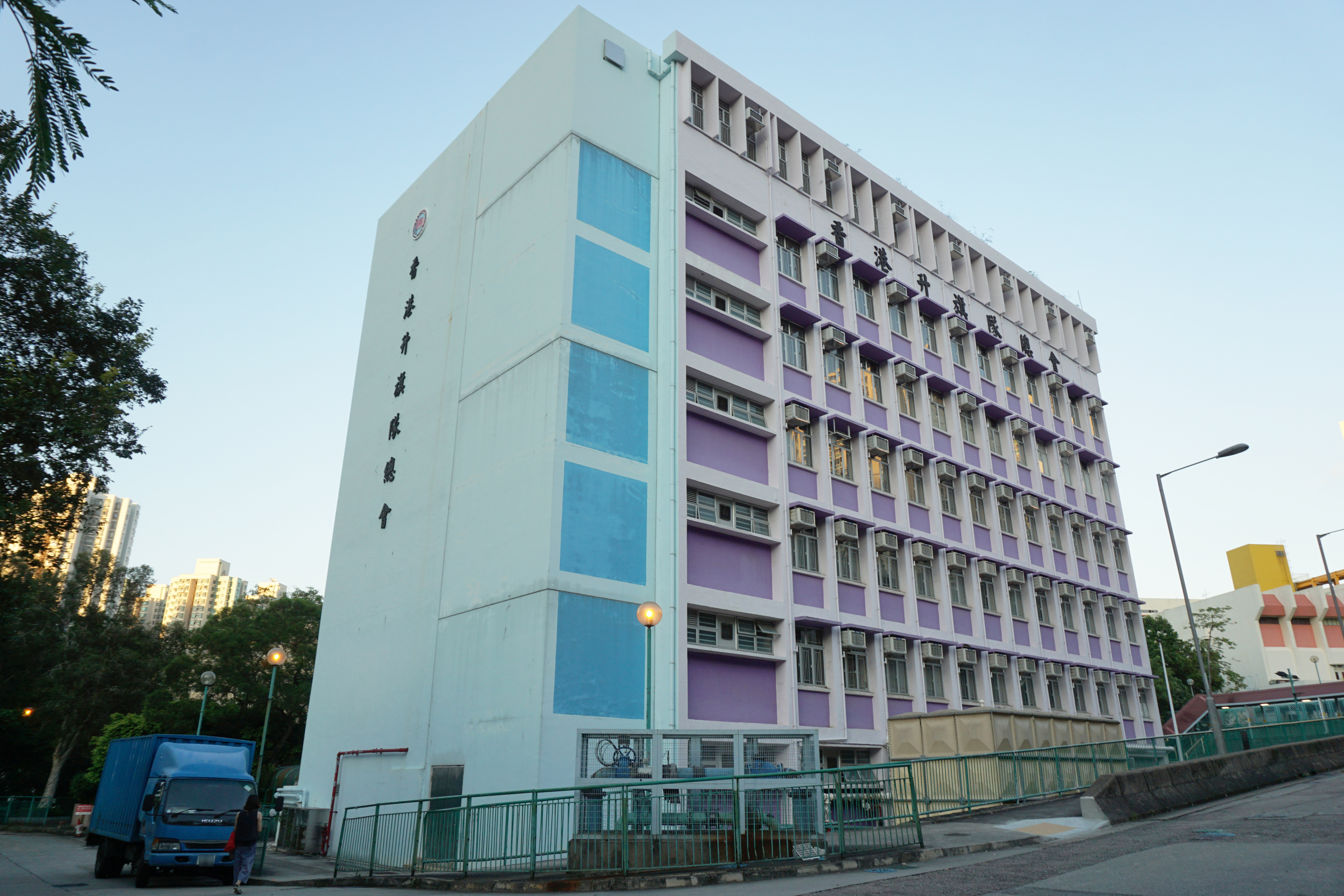 Former Cheung Chi Cheong Memorial Primary School public housing estate in Tsing Yi, Hong Kong.